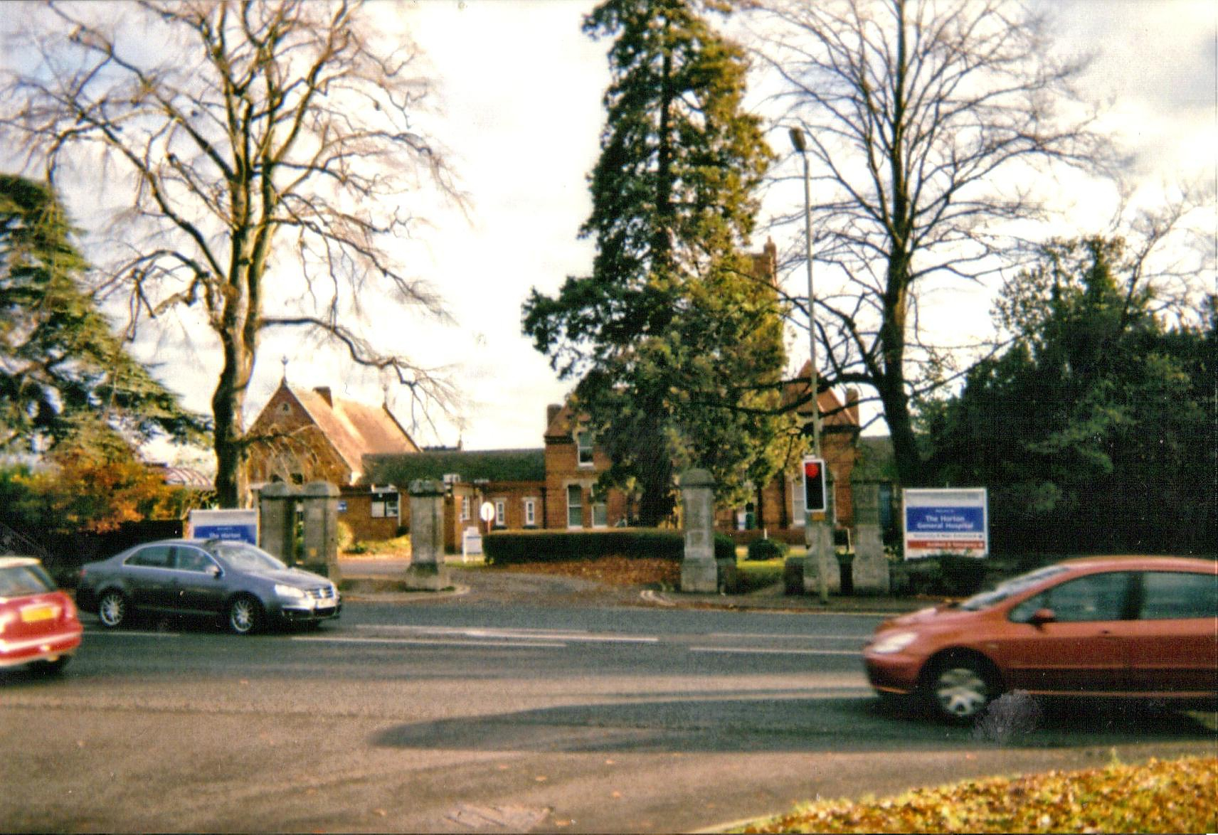 The Horton General Hospital in Banbury, in 2010. It was built in 1872 and slightly expanded in both 1964 and 1972 and was nearly closed in early 2005.